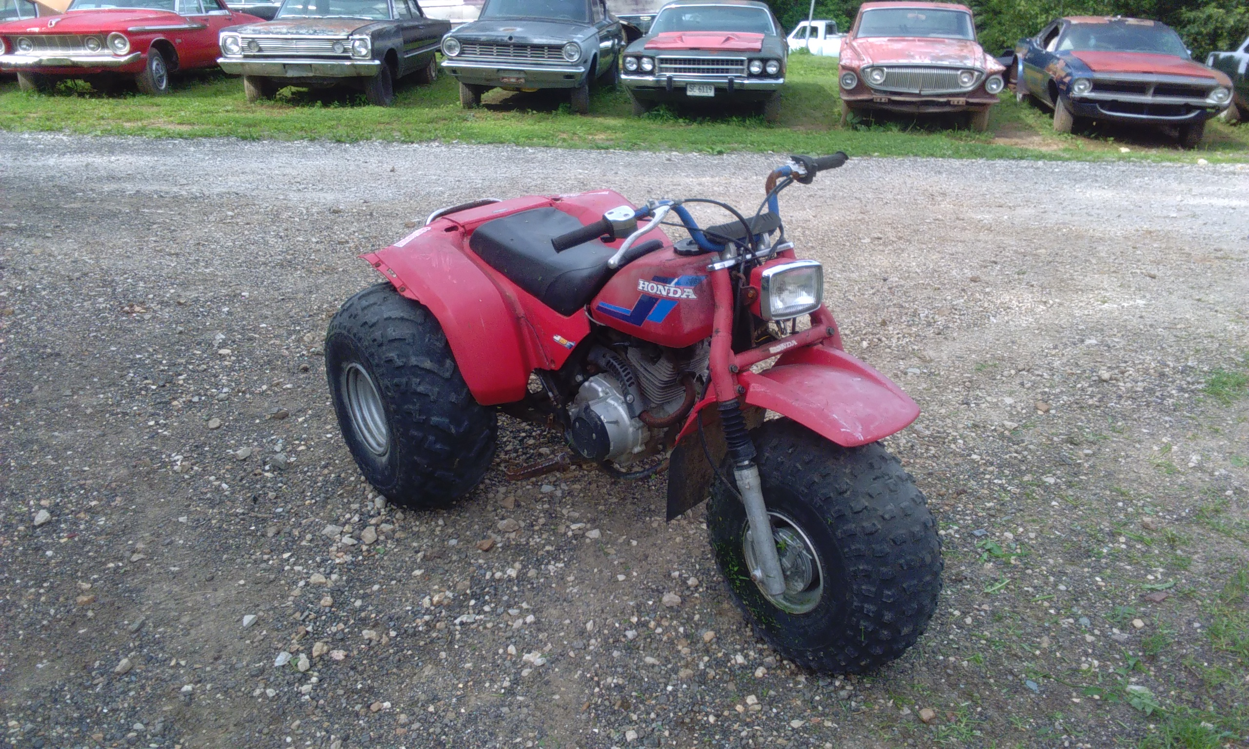 1984 Honda ATC 200s, one of the many Three-Wheeled ATV models made by Honda and other Manufacturers